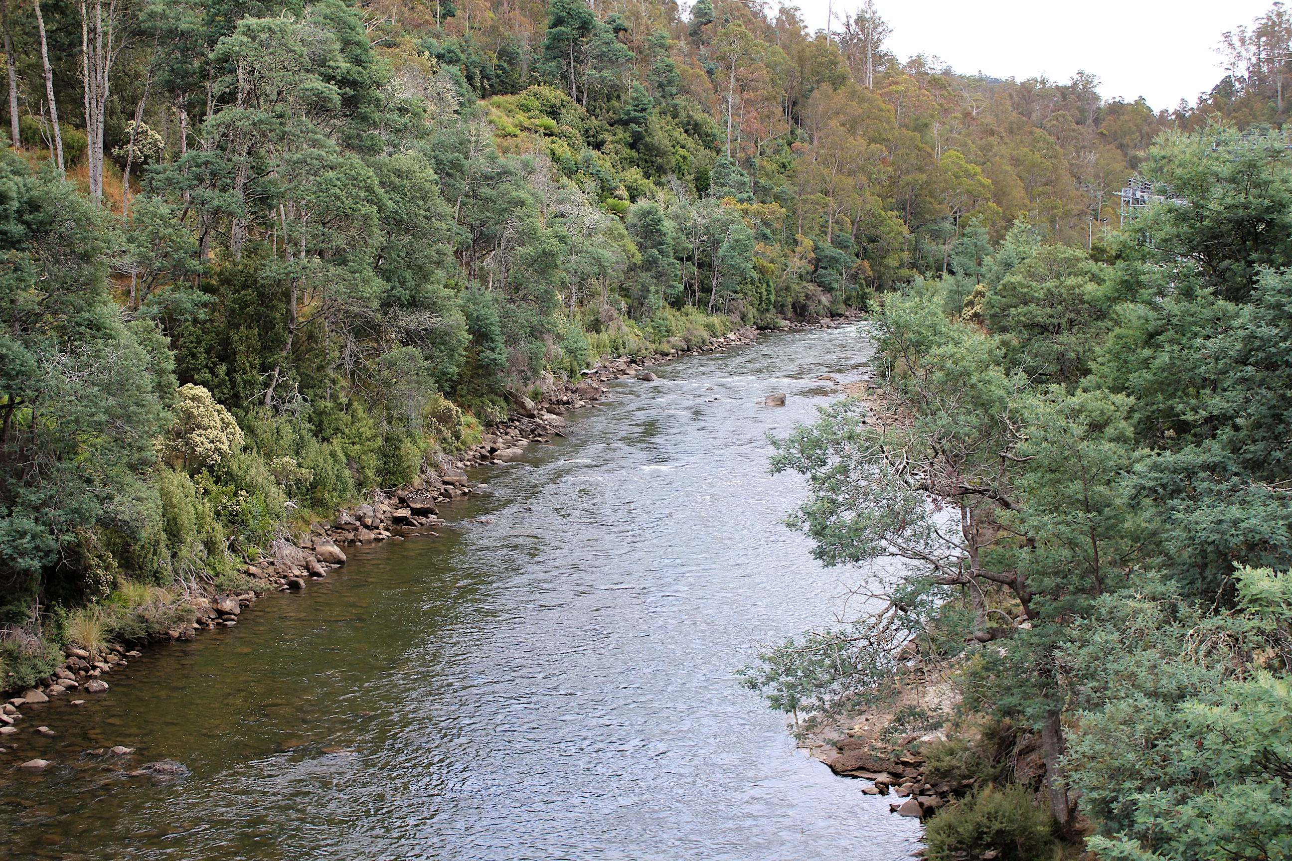 The Nive River (a tributary of the River Derwent), Tasmania, Australia